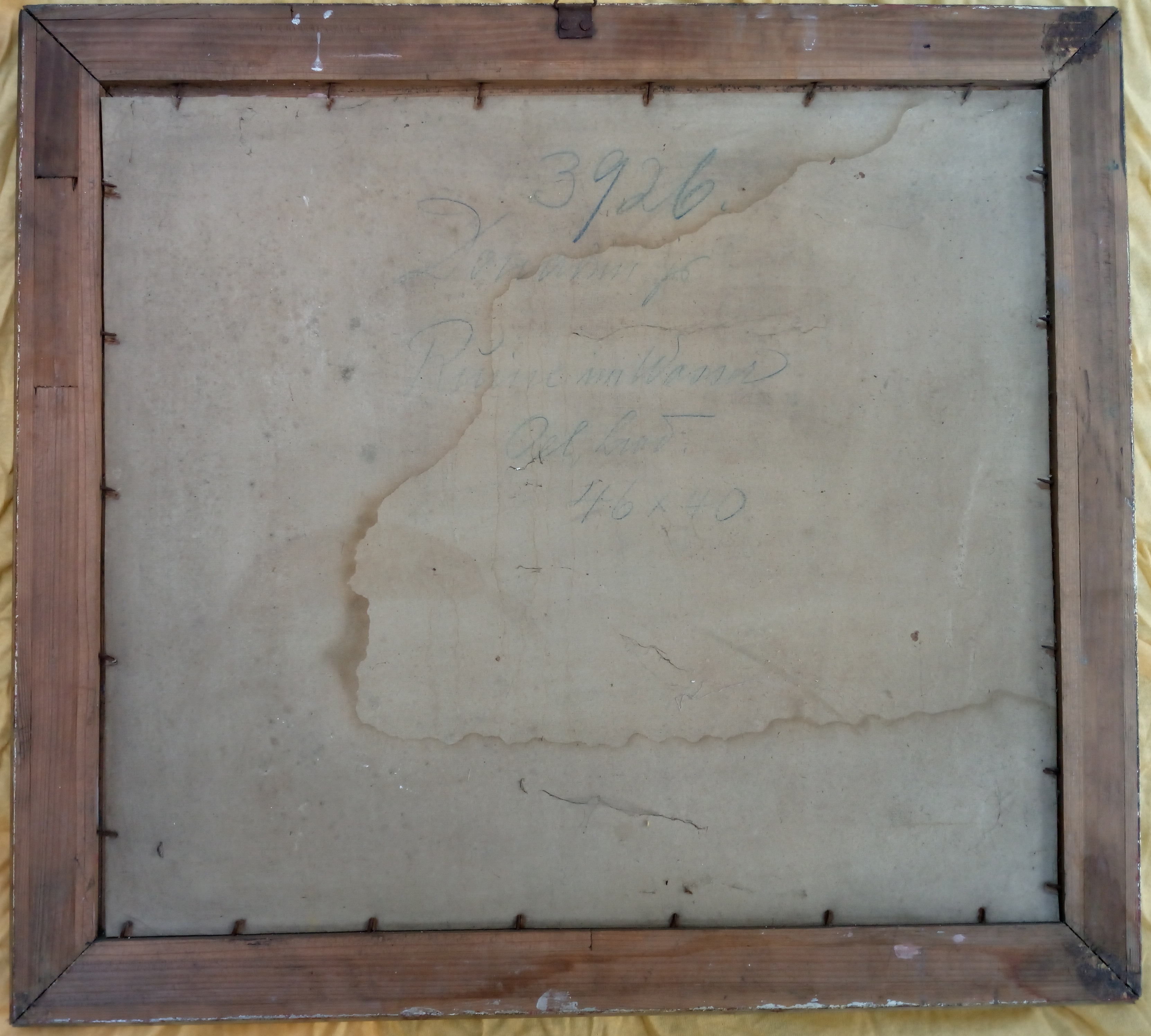 46cm x 40cm